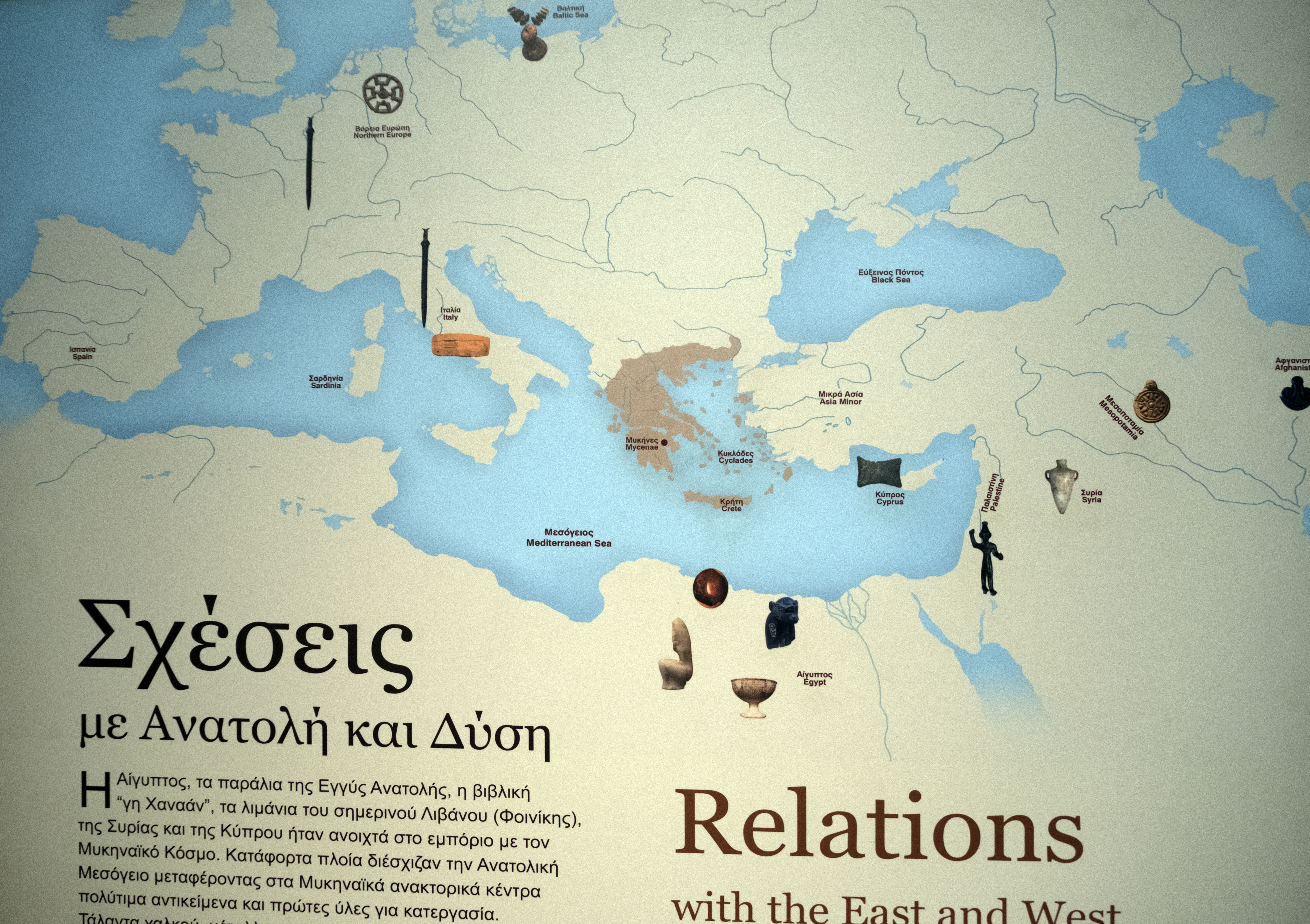 Myceneans findings out of Greece